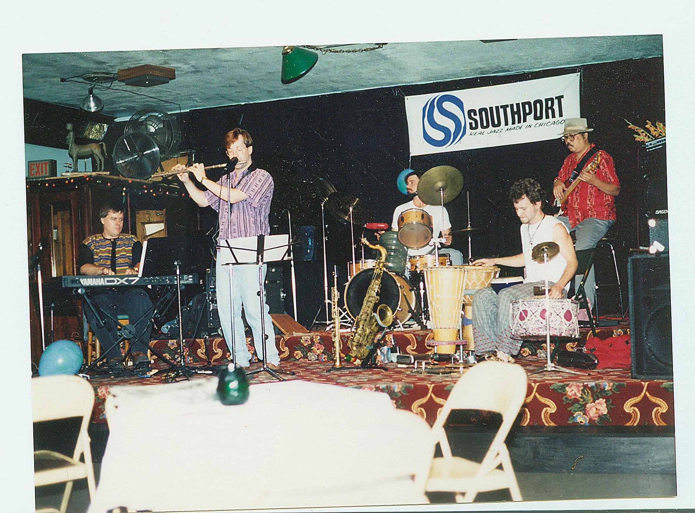 FLIPPOMUSIC at the Southport Records Festival at the Bop Shop, Chicago. Dave Flippo-keys, Dan Hesler-flute, Aras Biskis-drums, Steve Hashimoto-bass and Winston Damen - percussion